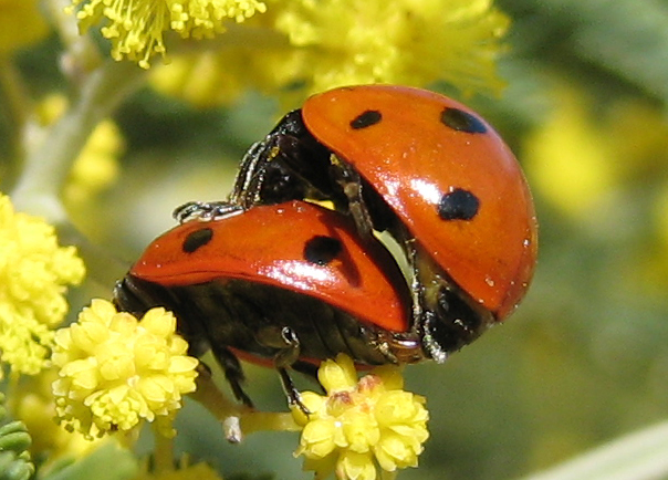 Ladybird mating